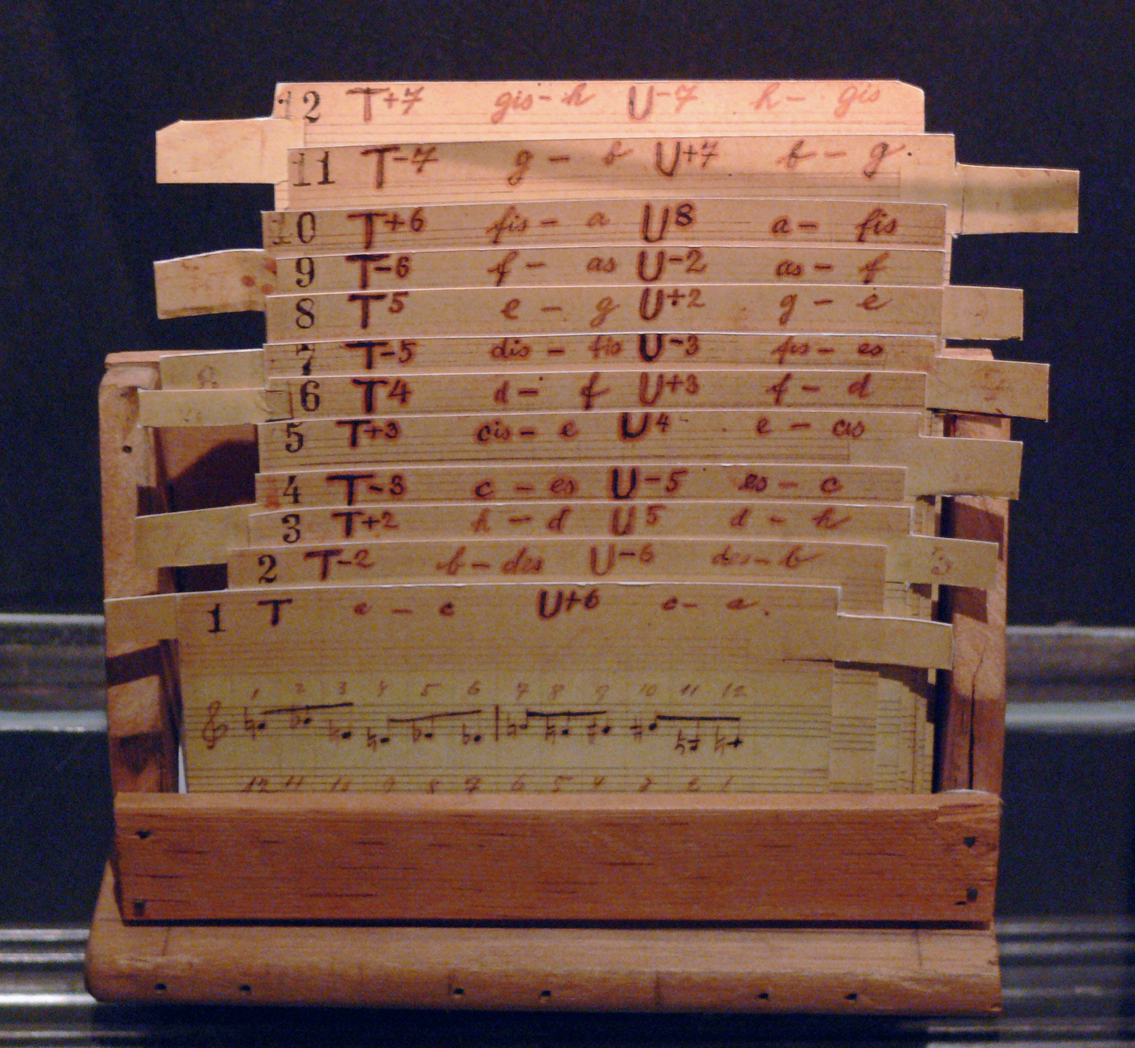 House of Music, Vienna Arnold Schoenberg twelve-tone composition for the opera Moses and Aron, on loan from the Arnold Schoenberg Foundation